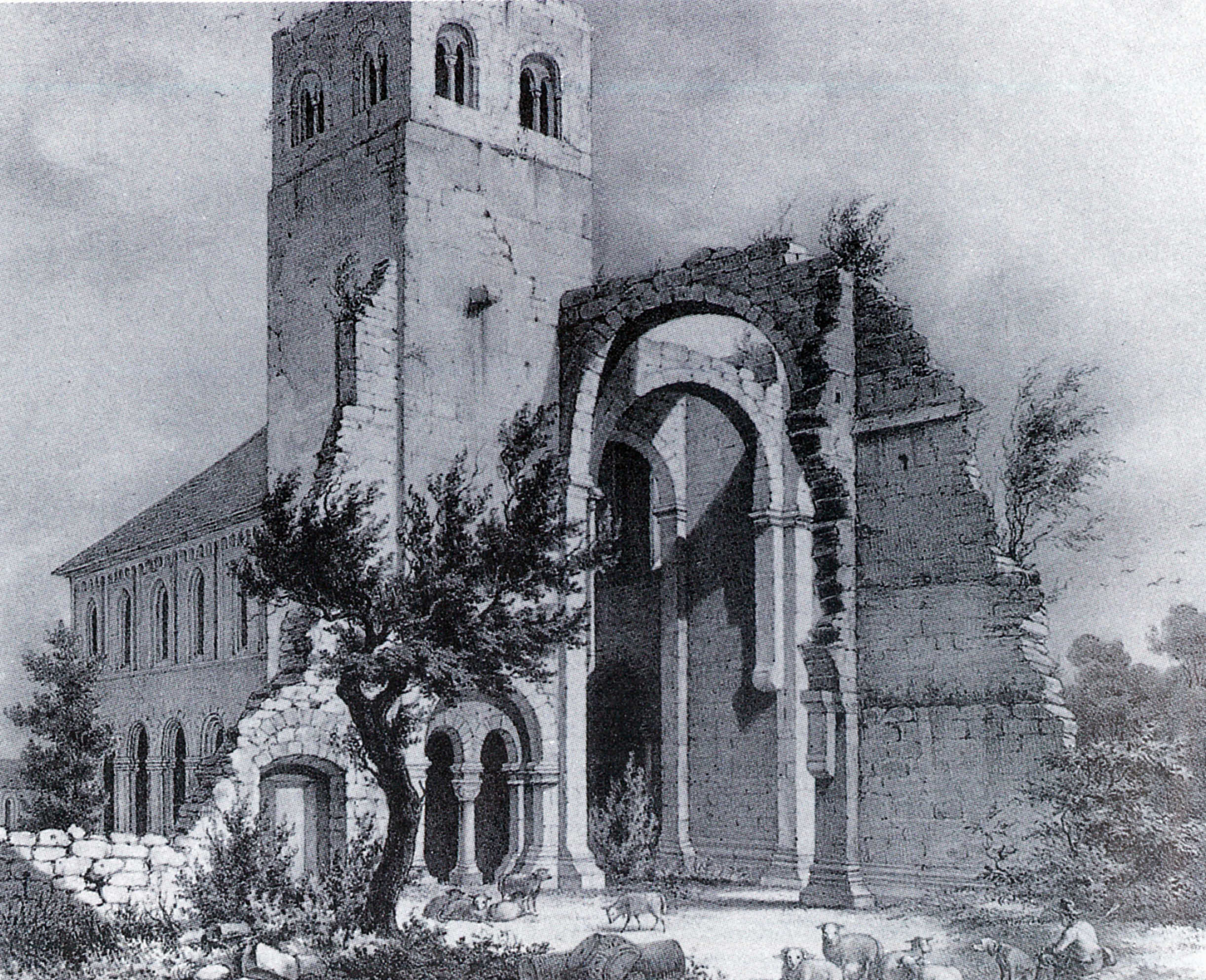 The Ruins of the eastern Part of the church Thalbürgel